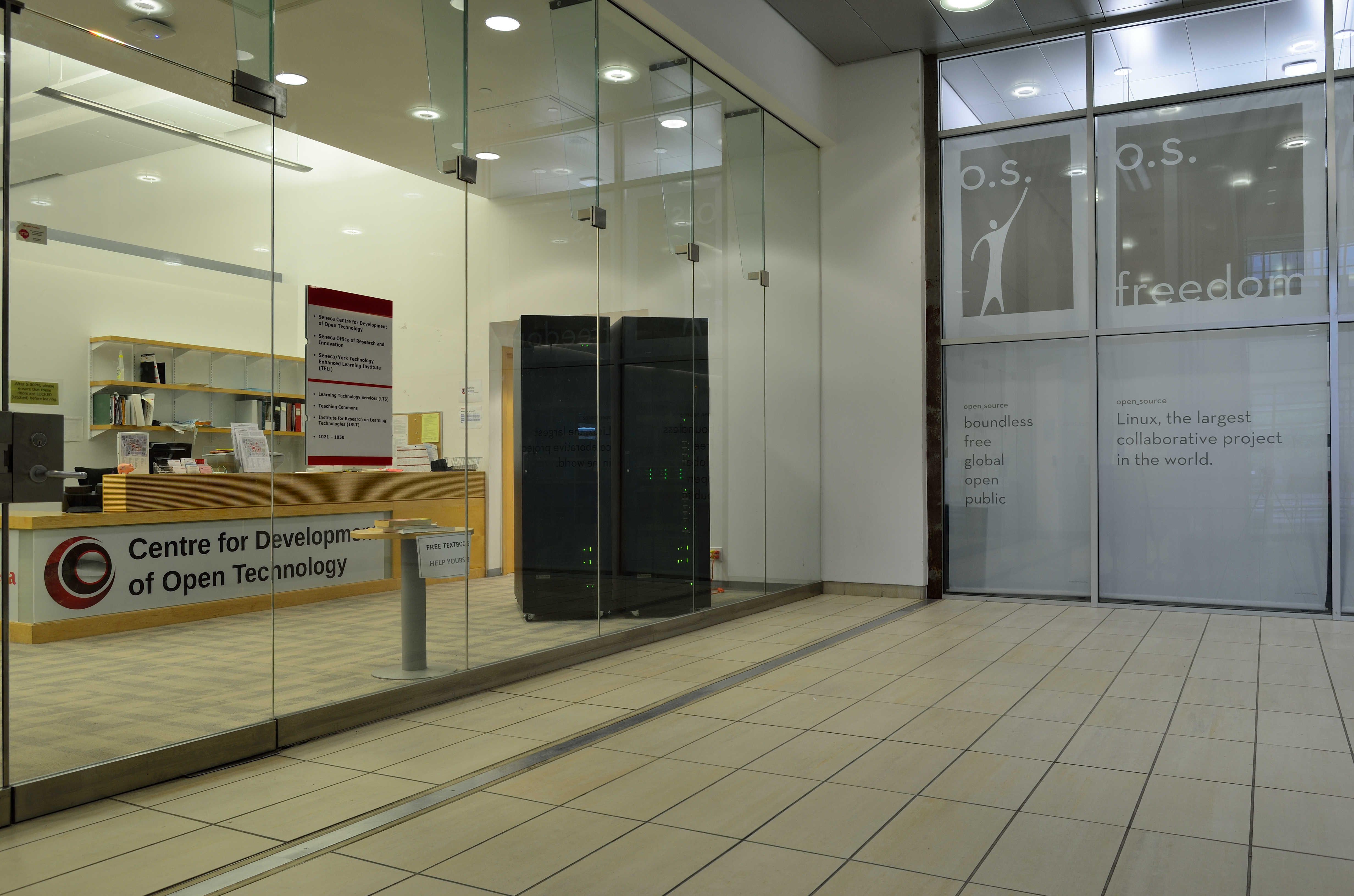 Centre for Development of Open Technology (CDOT) at Seneca@York